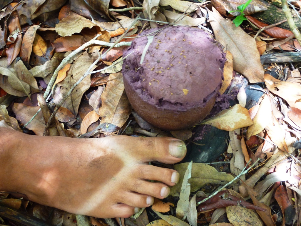 Photo taken in my garden last year